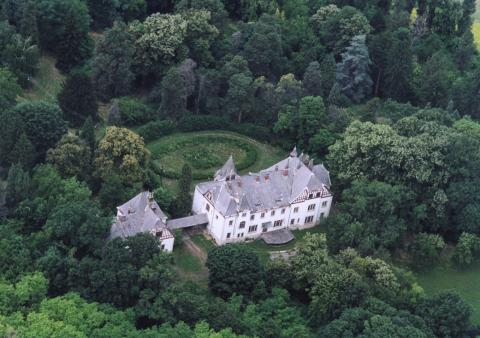 Lad - castle, Hungary, aerialphotography (Hoyos Miksa Mansion)